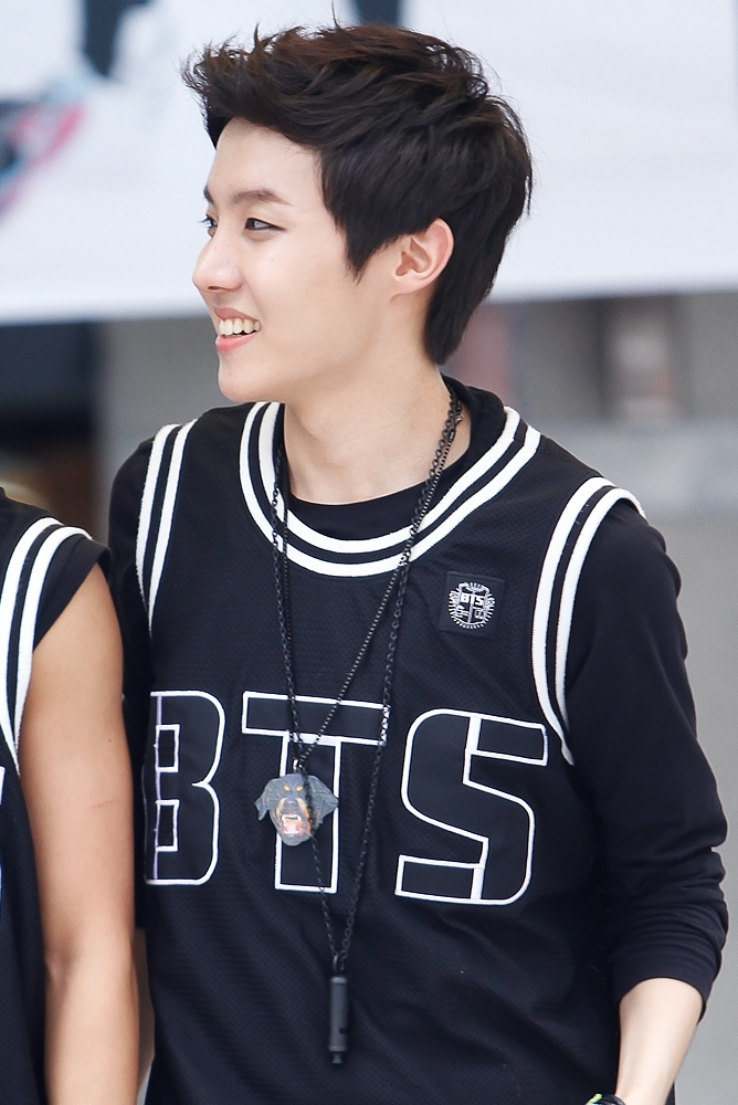 J-Hope at an fansign in Busan on July 27, 2013.